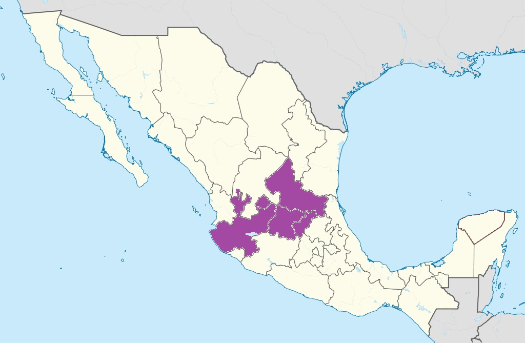 Alianza del Bajío Occidente